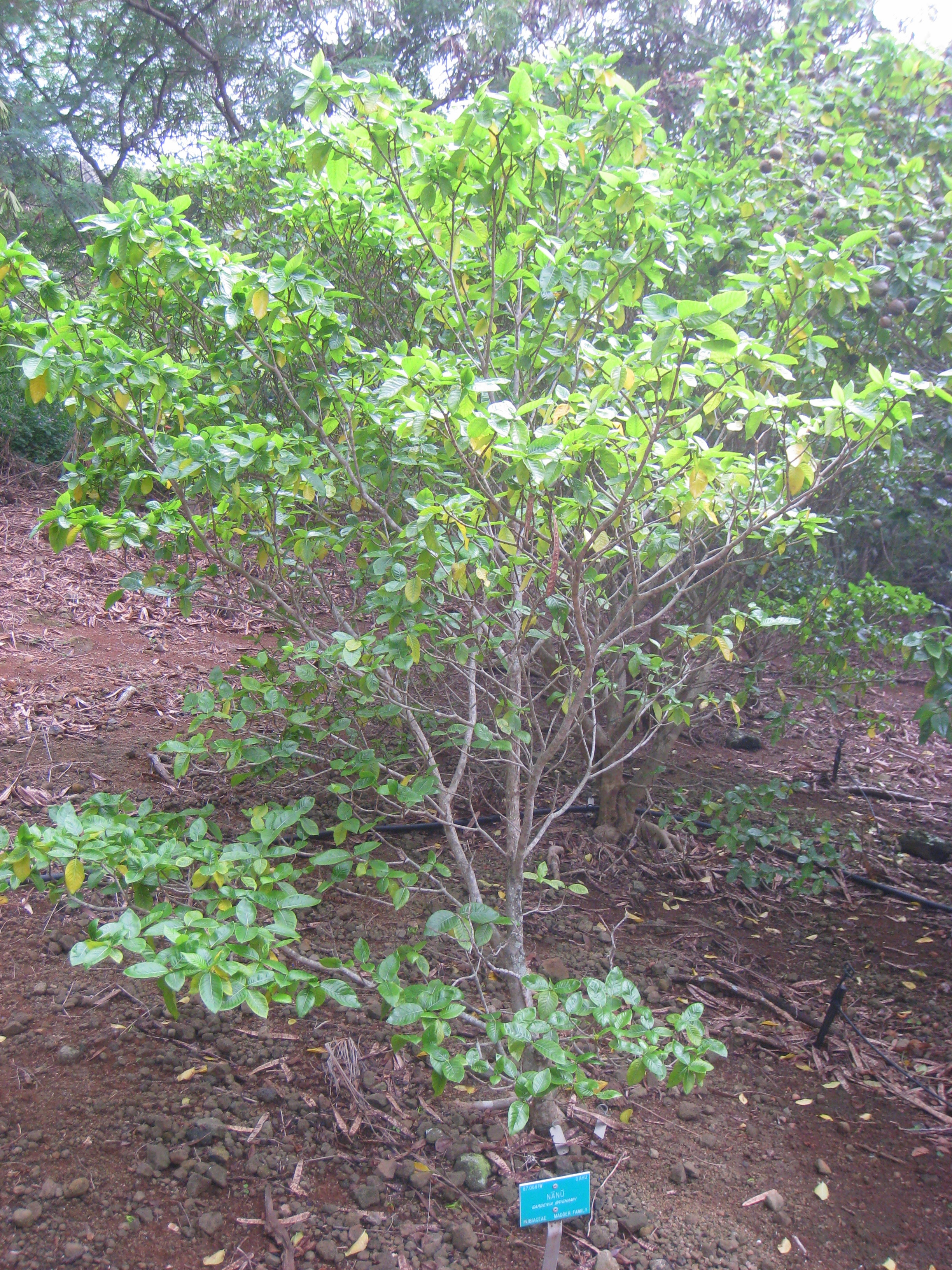 Gardenia brighamii in the Koko Crater Botanical Garden, Honolulu, Hawaii, USA.